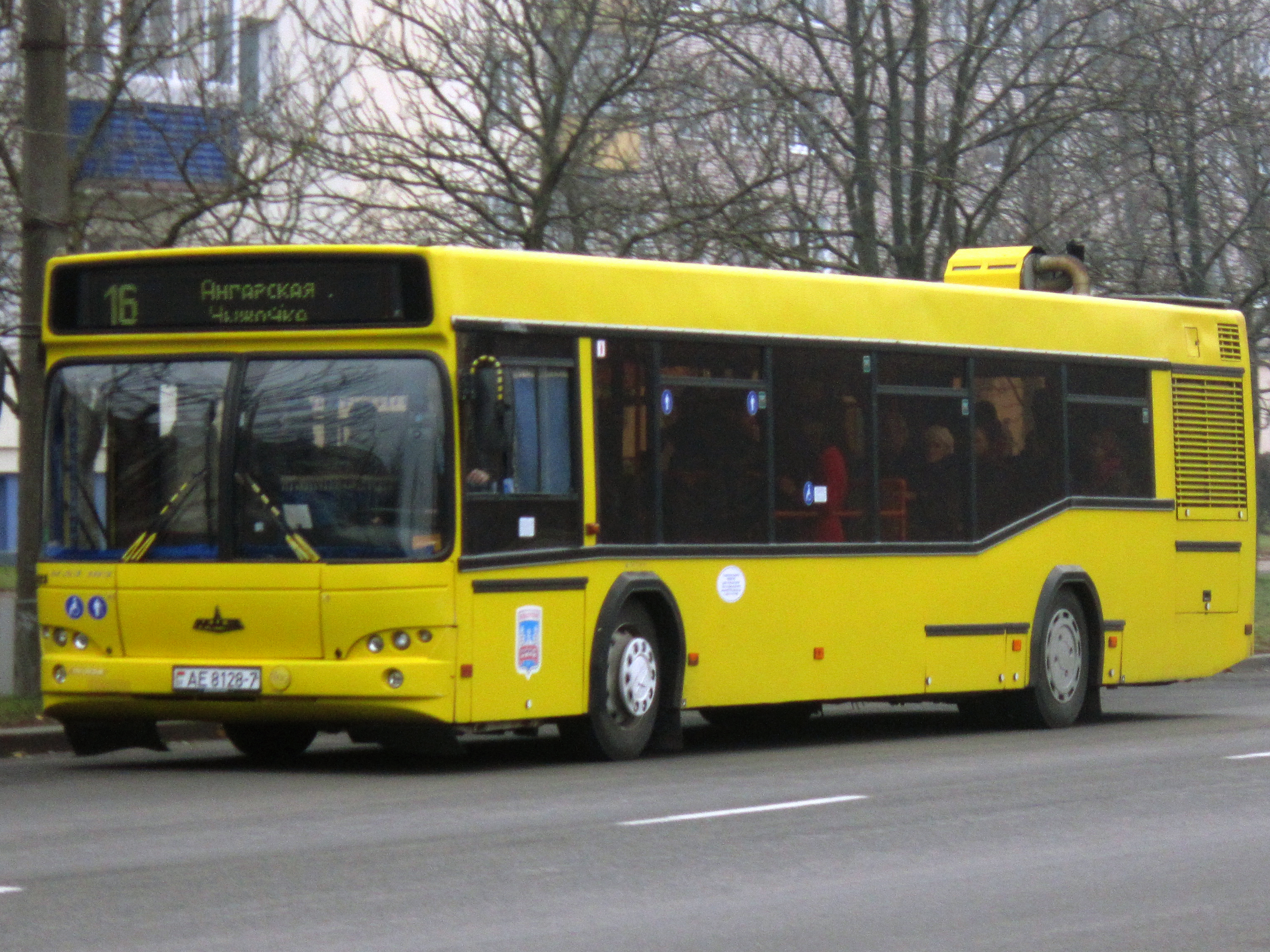 Bus number 16 (Anharskaya-4 — Chyzhowka) in Minsk, Belarus